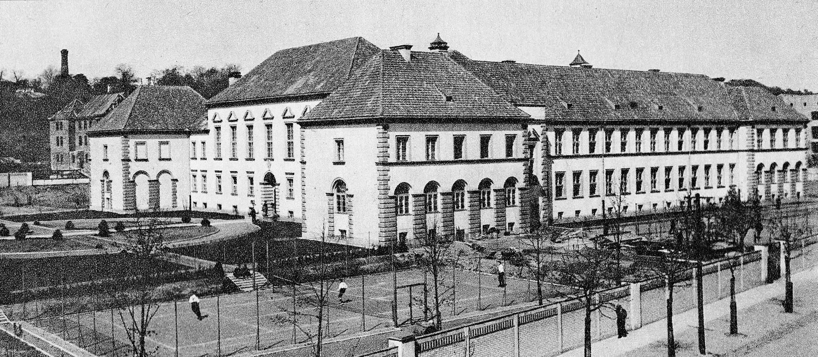 Stefan Batory State Gymnasium at 6 Myśliwiecka Street in Warsaw